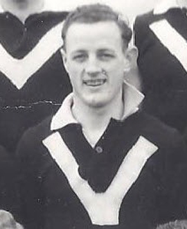 Photograph of Doug Smith in 1943